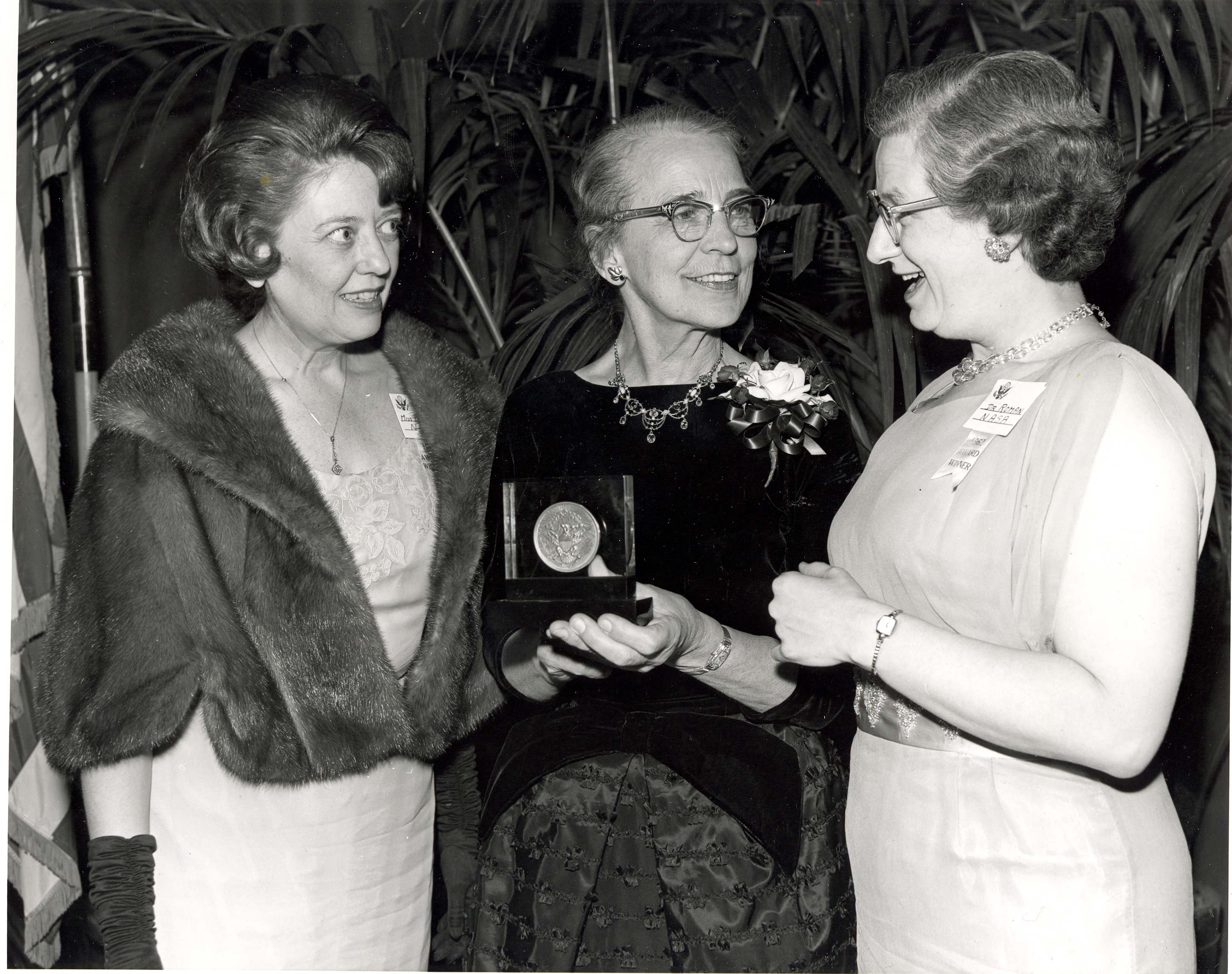 Dr. Evelyn Anderson (center) wins a 1964 Federal Woman's Award. She was the third NASA woman to win the award, and is joined by the two previous NASA awardees: Eleanor Pressly (left) and Dr. Nancy Grace Roman (right). Dr. Anderson (1899–1985) headed a research unit on neuroendocrinology at NASA's Ames Research Center from 1962–1969. Eleanor Pressly won a 1963 Federal Woman's Award for her pioneering work in the development of sounding rockets and was the Head of the Vehicles Section of the Spacecraft Integration and Sounding Rocket Division at NASA's Goddard Space Flight Center. Dr. Nancy Grace Roman won a 1962 Federal Woman's Award and was NASA's first Chief of Astronomy. Credit: NASA